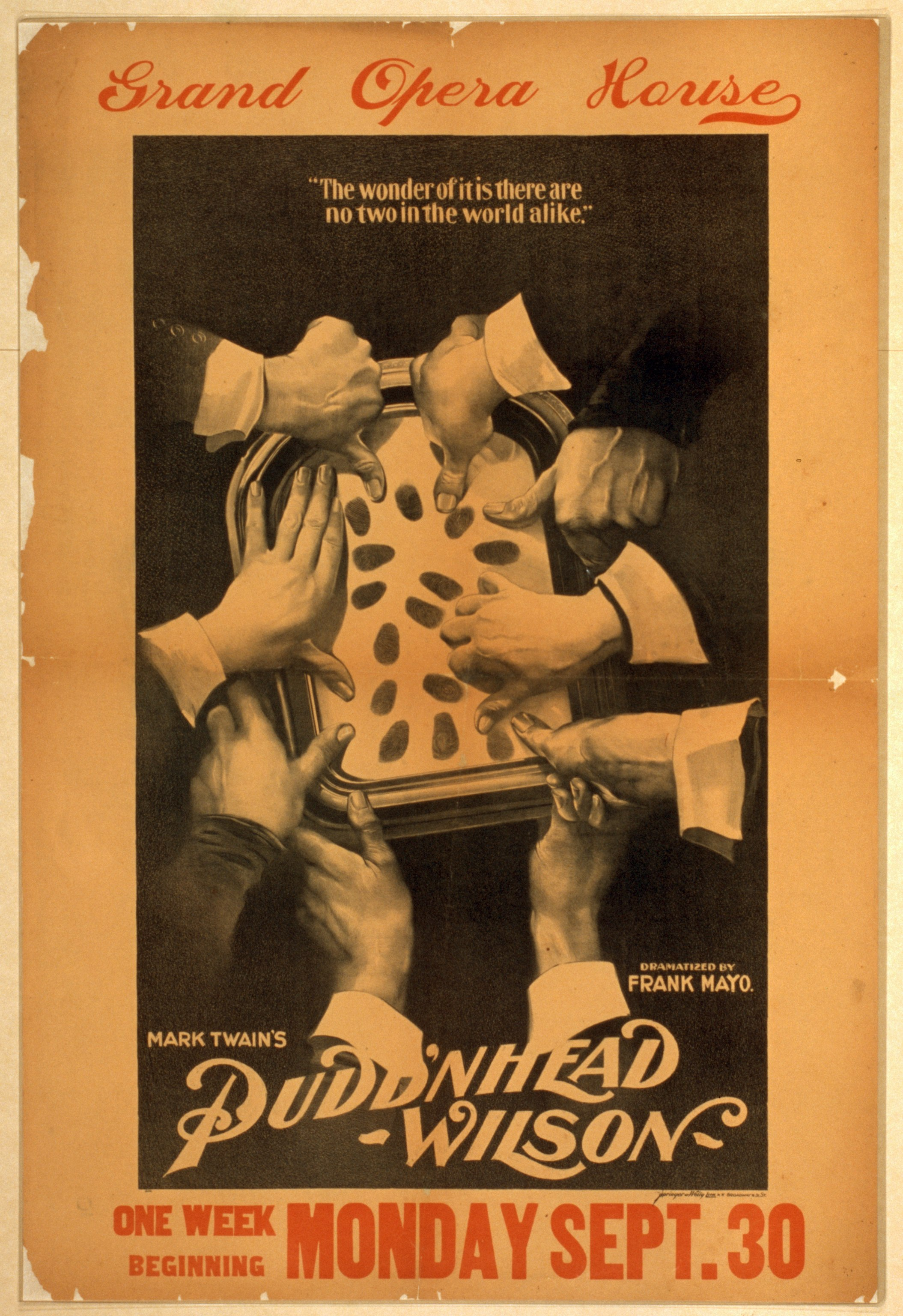 Title: Mark Twain's Pudd'nhead Wilson dramatized by Frank Mayo. Abstract/medium: 1 print : color lithograph ; sheet 107 x 72 cm. (poster format)